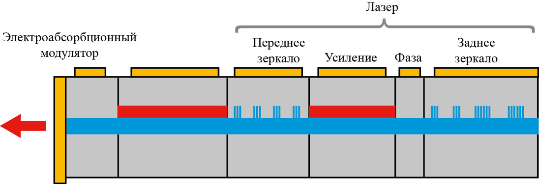 Scheme integrated monoblock optical transmitter based on the tunable laser with an external modulator and amplifier.